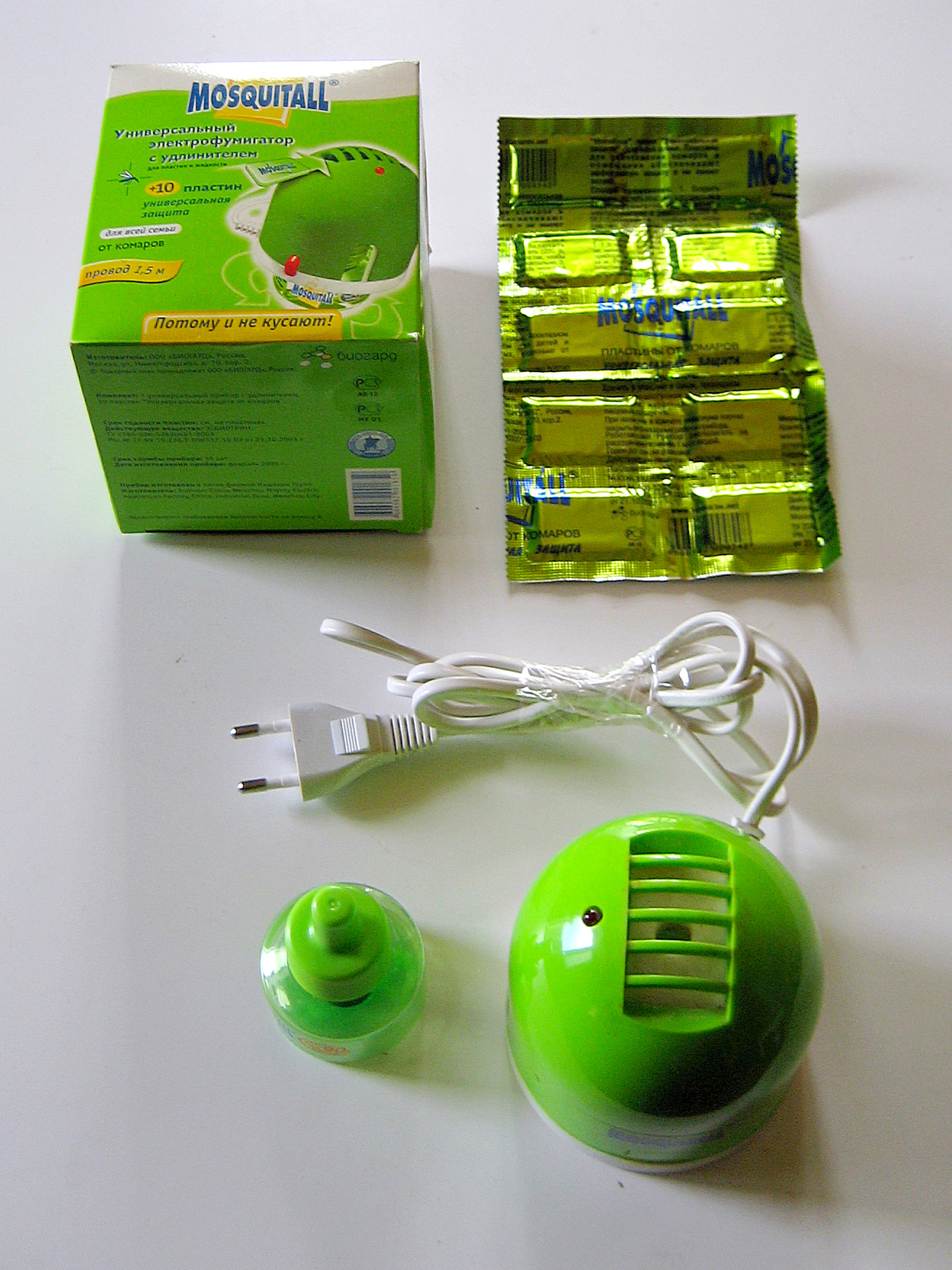 Mosquitall.